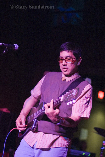 Money Mark, American musician, live at Eternal, March 2007.